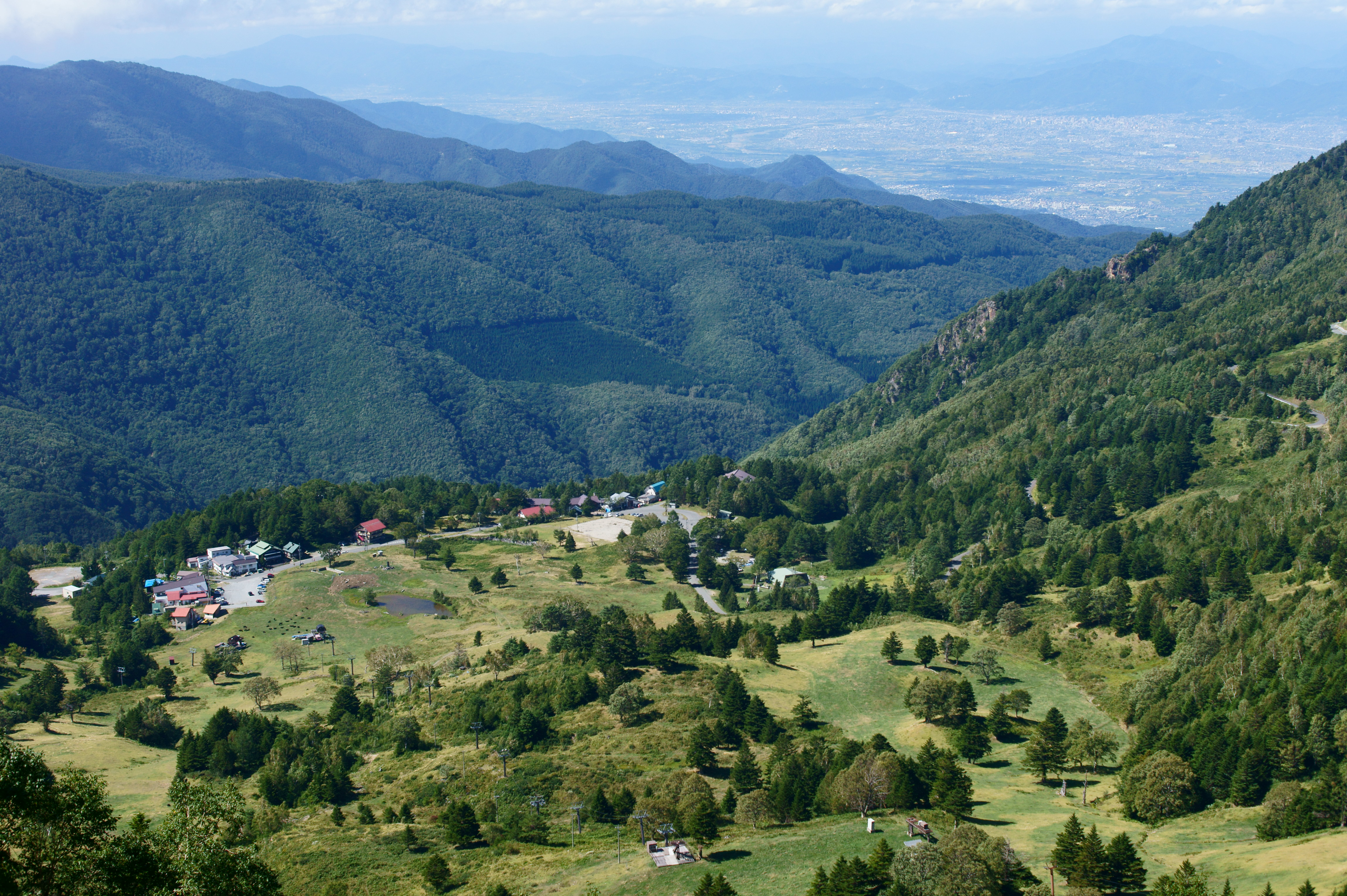 Japan: View of the Yamada area in Takayama (Nagano prefecture).